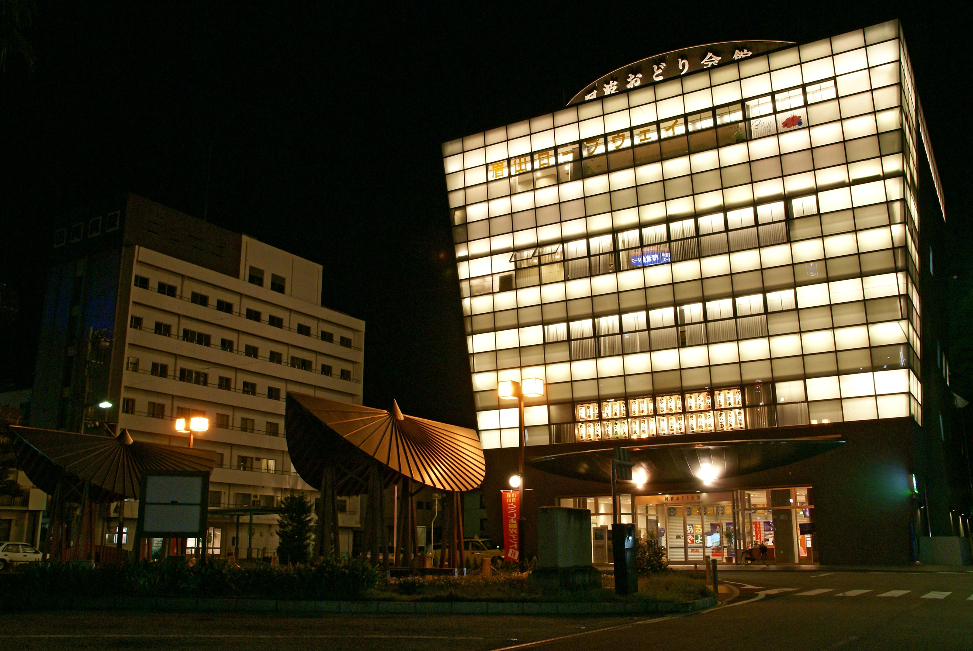 Awa Dance Memorial Hall in Tokushima, Tokushima prefecture, Japan